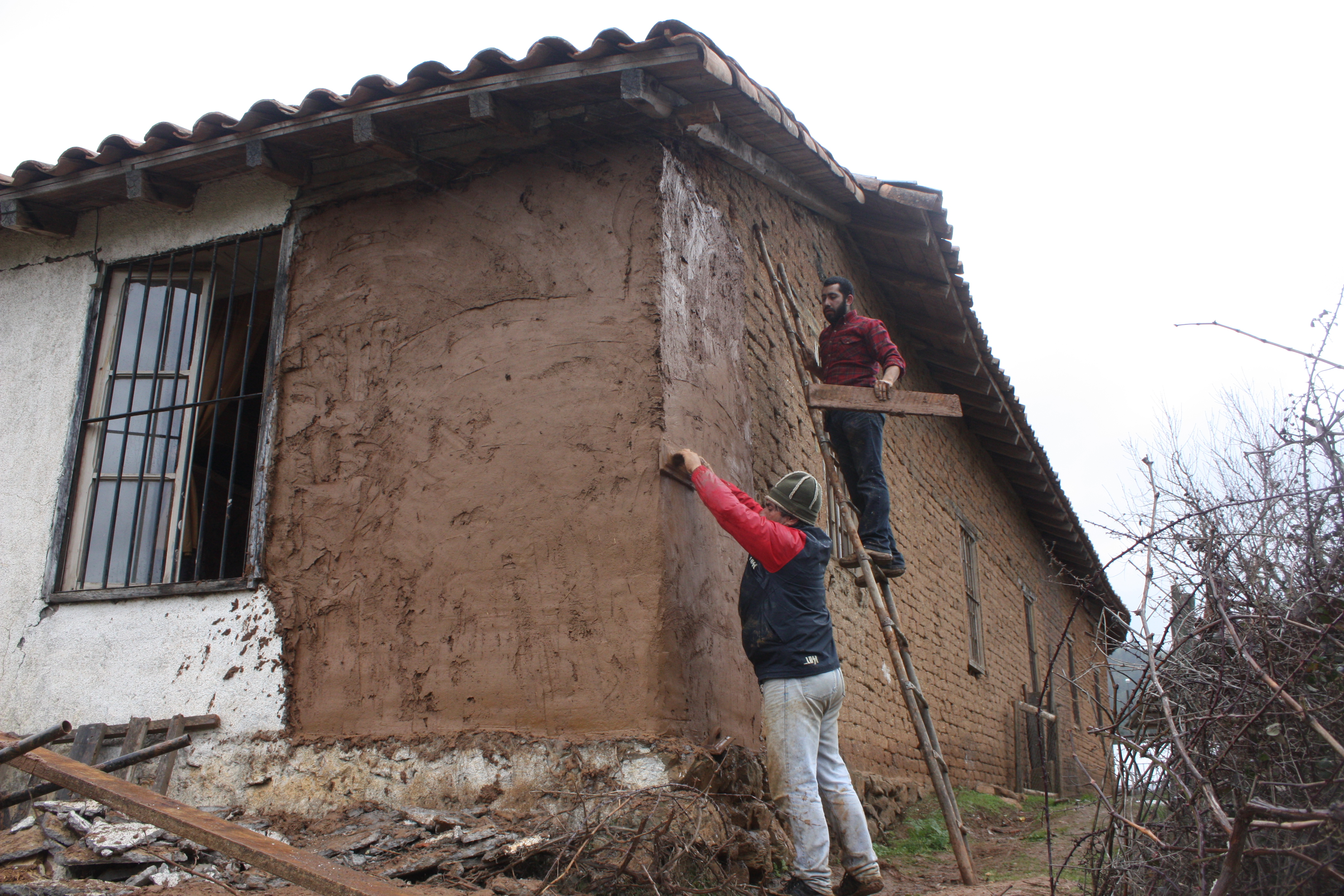 After the 2010 earthquake in Chile. Repair of adobe houses in Vichuquen